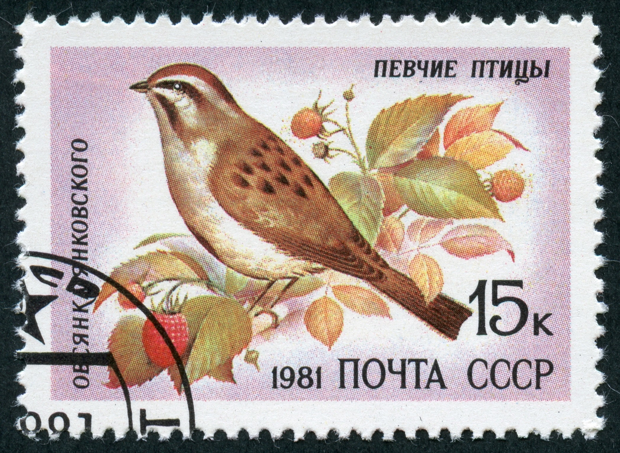 A USSR stamp